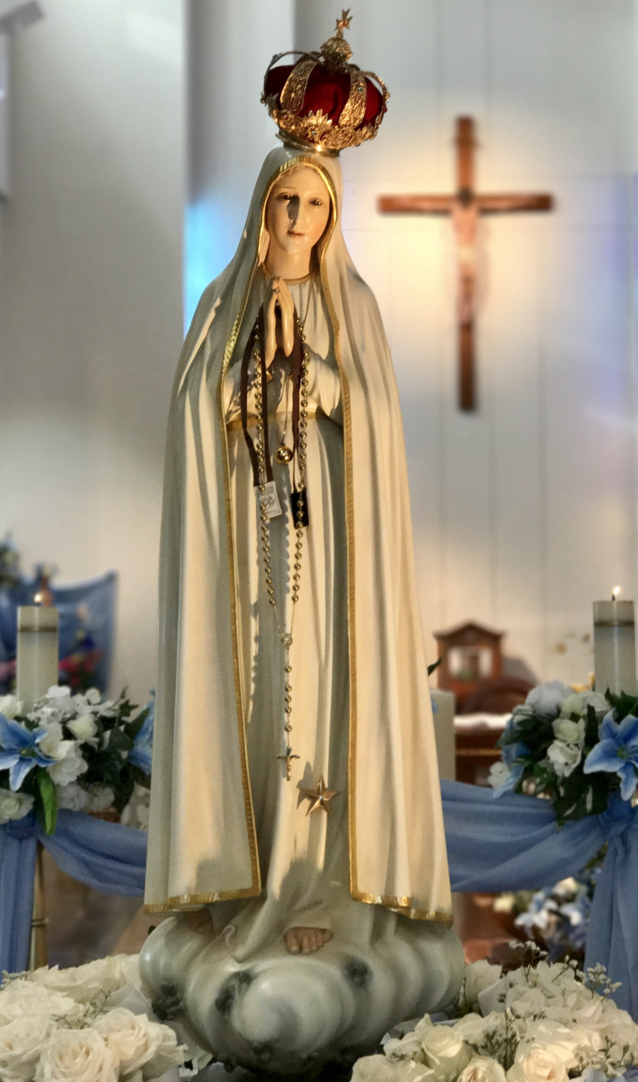 Fatima Mary IC Sparks